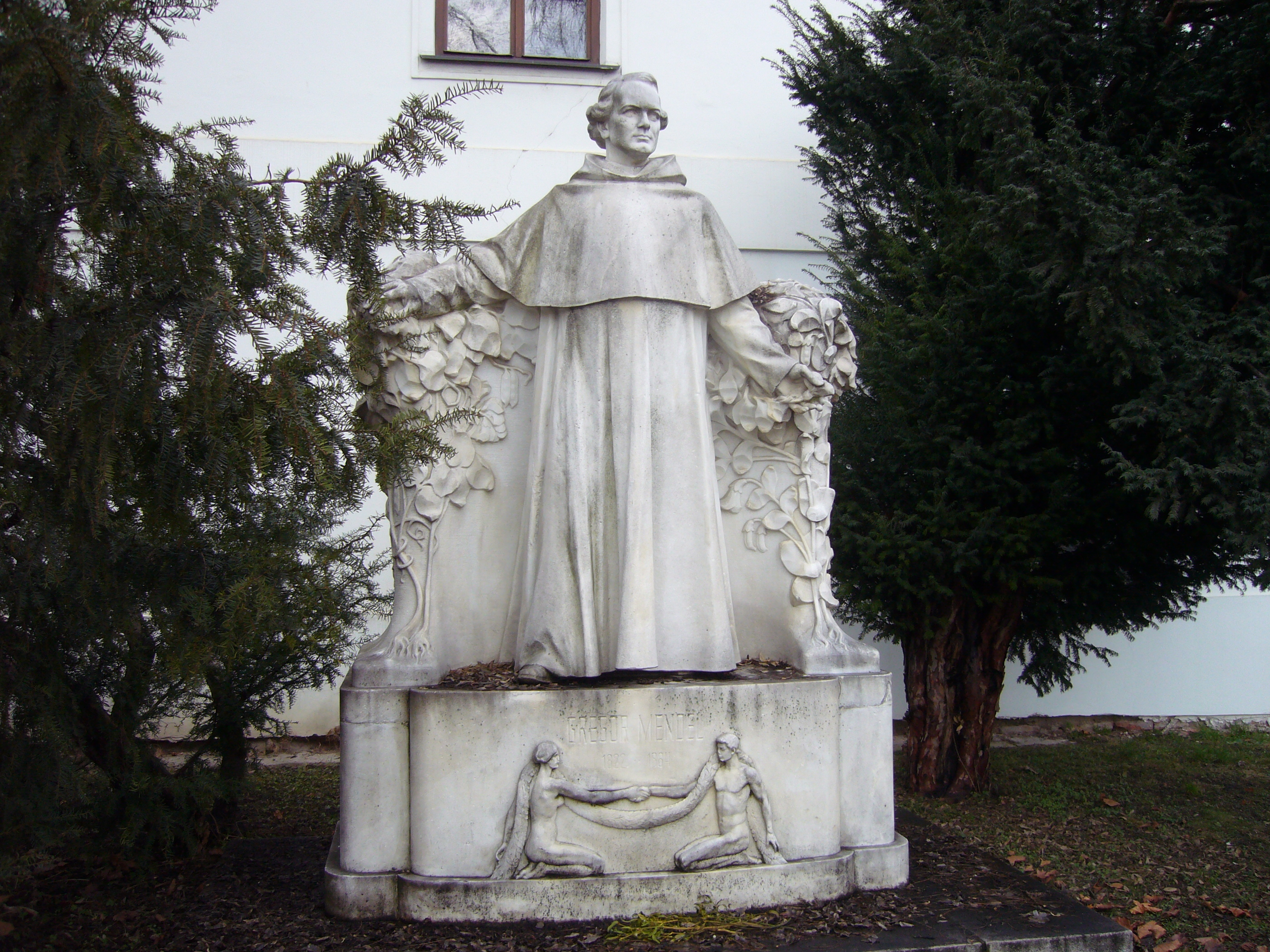 Statue of Gregor Mendel in the area of ​​the Monastery in Brno; Theodor Charlemont sculptor